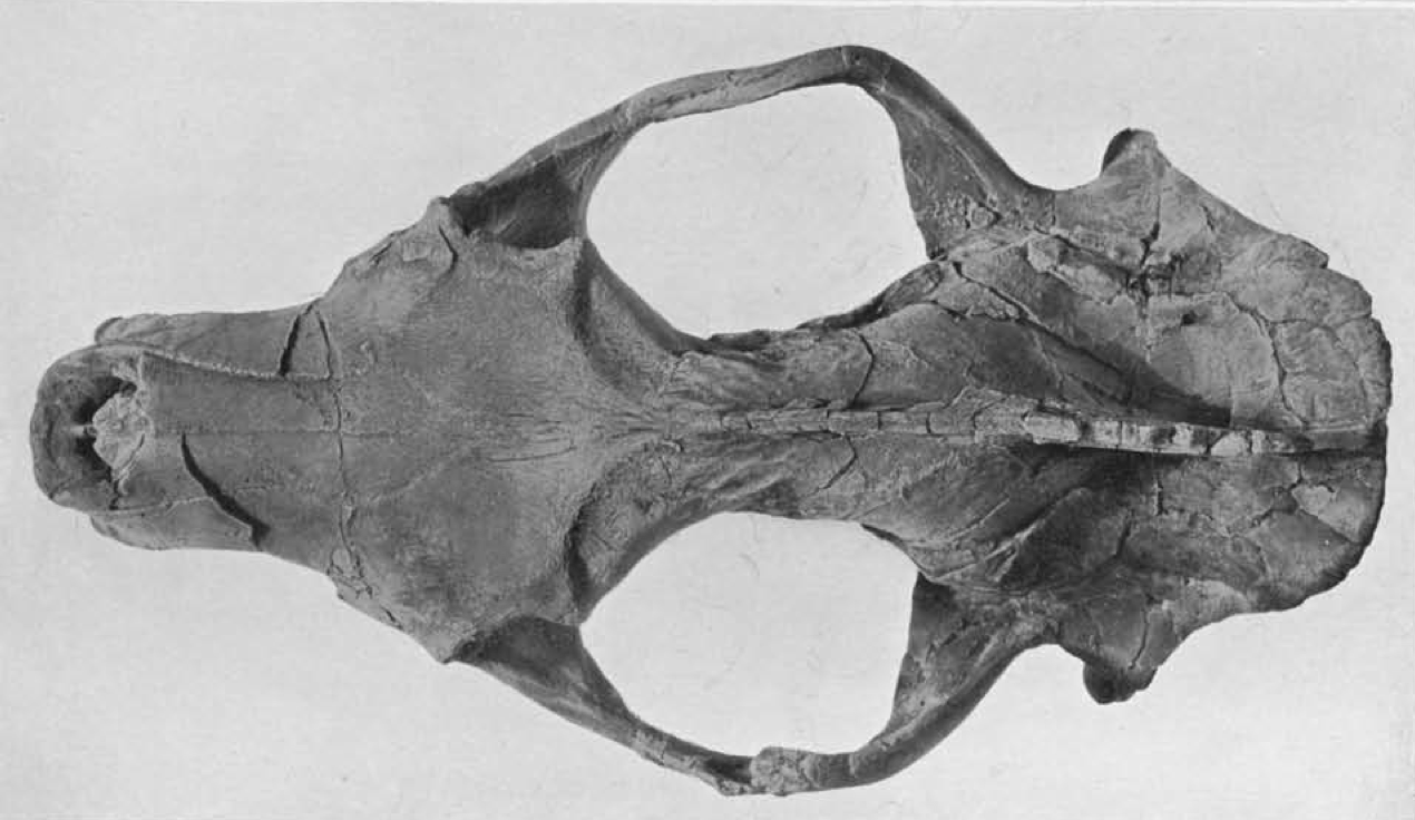 Ventral view of Limnocyon skull